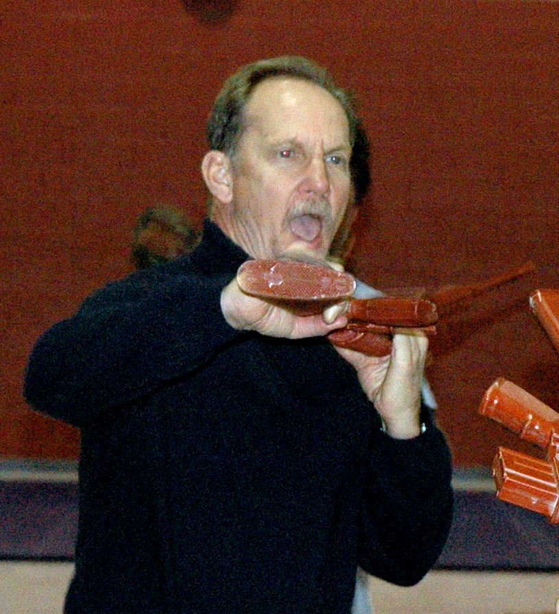 Actor Michael O'Neill practices some self-defense tactics with instructor Rhonda Battles using an M-16 training aid while visiting Lackland Air Force Base, Texas, during a National Civic Outreach Program tour. Ms. Battles is with the 343rd Training Squadron. (U.S. Air Force photo/Tech. Sgt. Cortchie Welch)